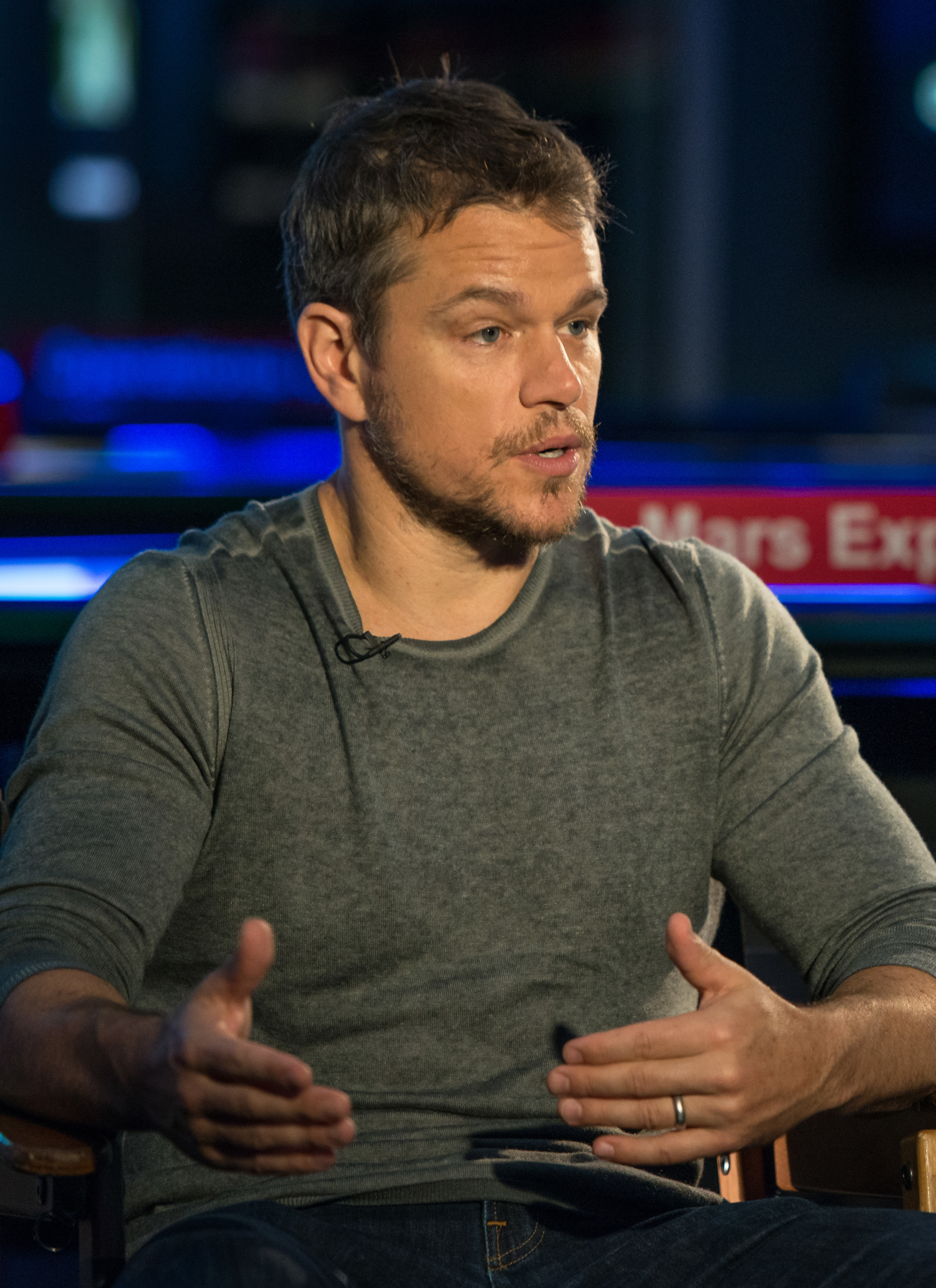 Actor Matt Damon, who stars as NASA Astronaut Mark Watney in the film “The Martian," participates in media interviews, Tuesday, Aug. 18, 2015, at the Jet Propulsion Laboratory in Pasadena, California. NASA scientists and engineers served as technical consultants on the film. The movie portrays a realistic view of the climate and topography of Mars, based on NASA data, and some of the challenges NASA faces as we prepare for human exploration of the Red Planet in the 2030s.